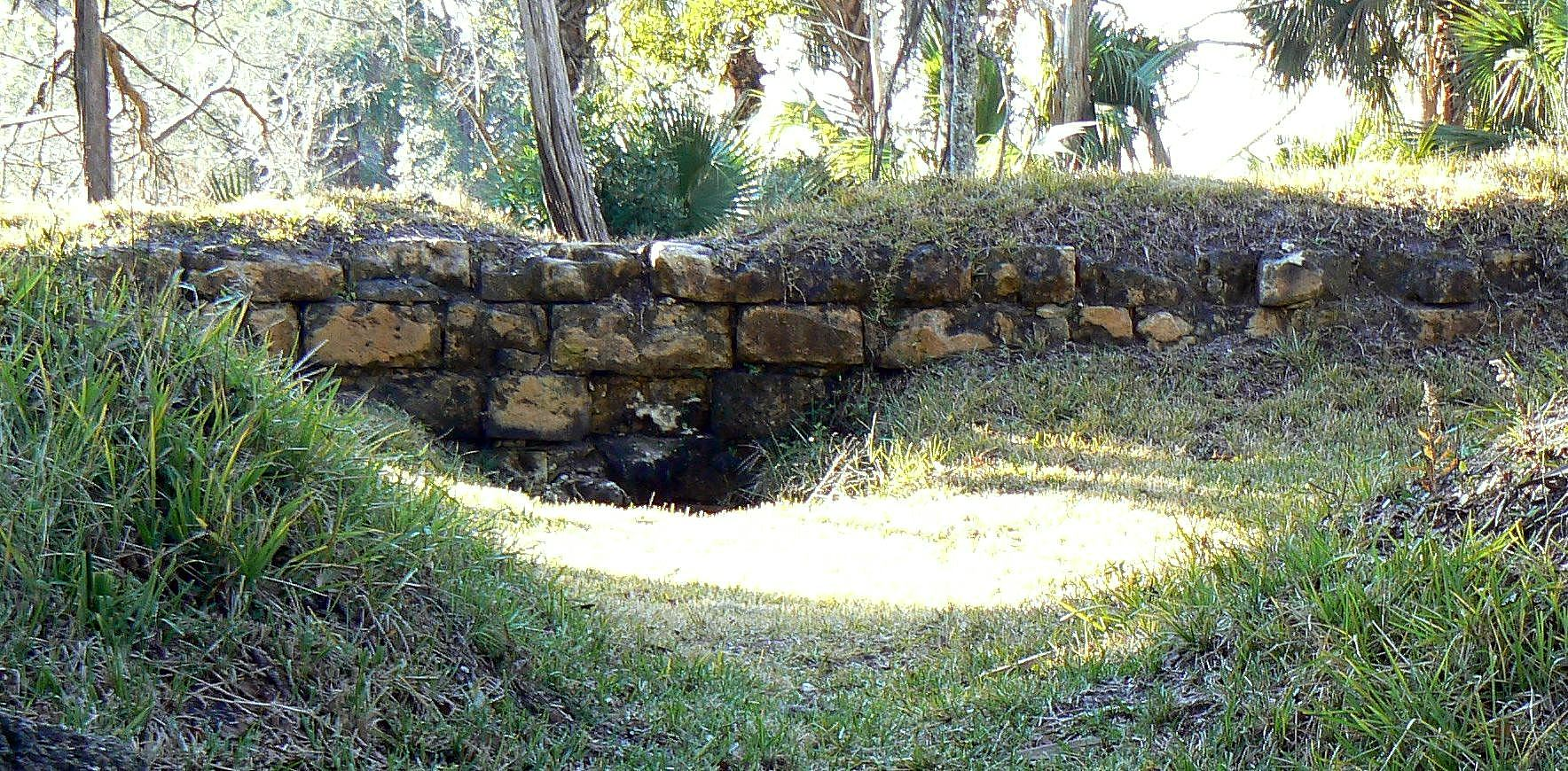 One of the small remaining portions of the original "bombproof" at the Spanish fort, San Marcos de Apalache; St. Marks, Florida.